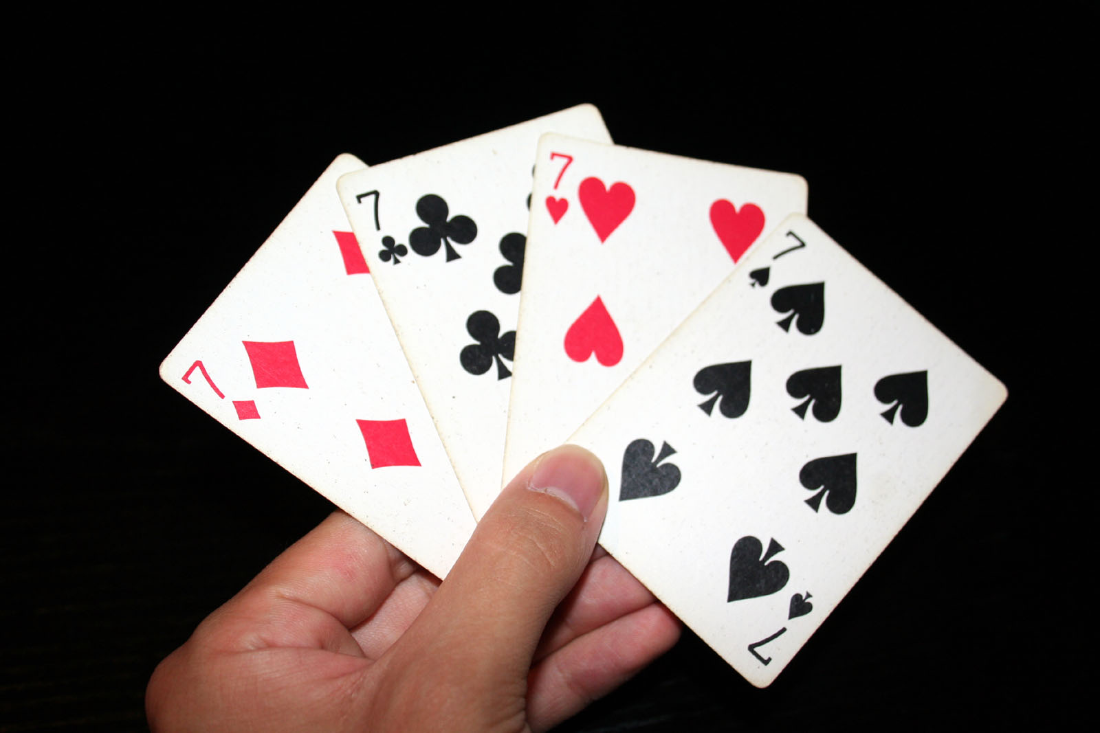 A hand holding the four 7's in a standard deck of cards: Diamonds, Clubs, Hearts, Spades.